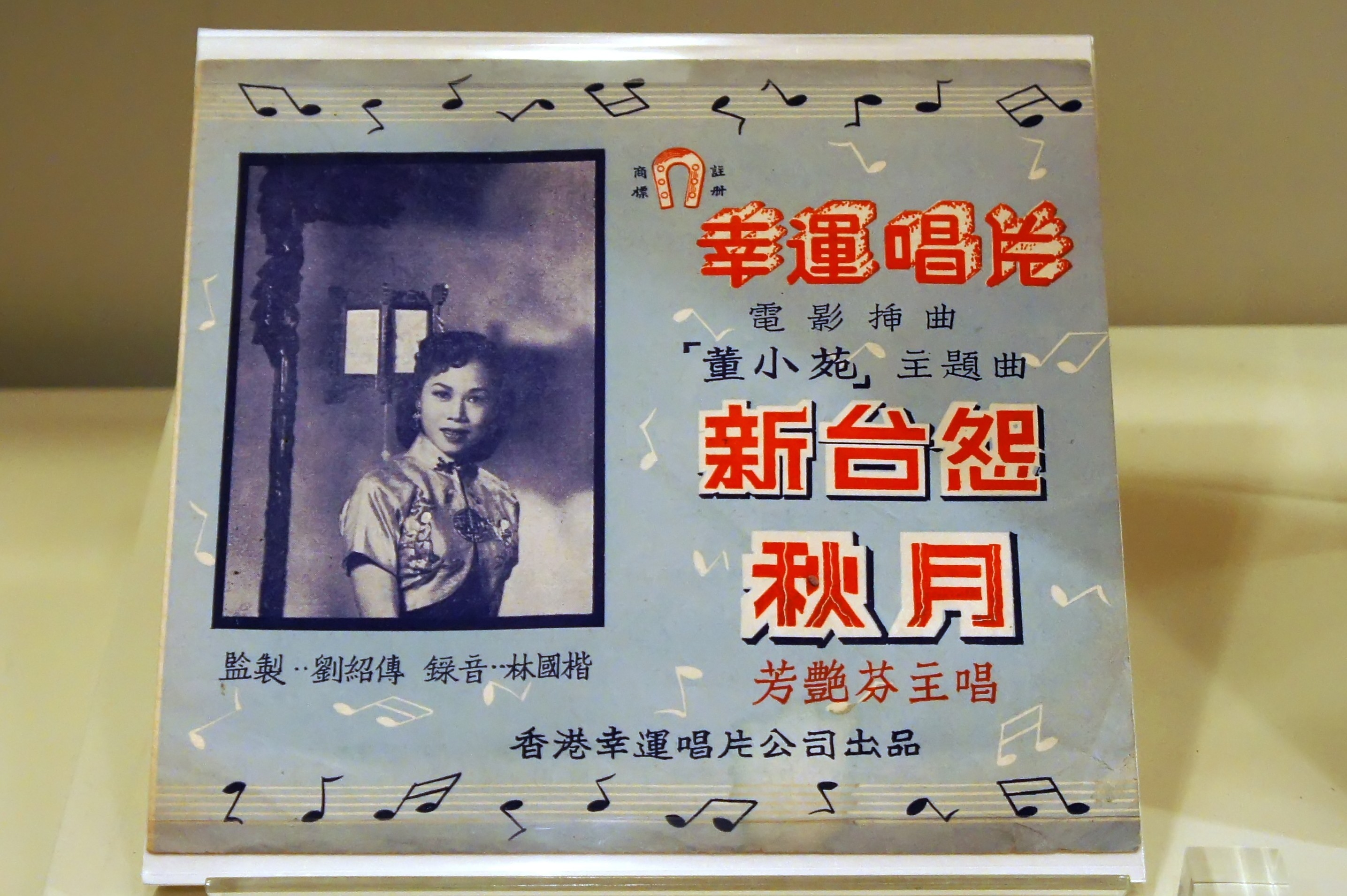 A record song sheet of Fong Yim-fun, c. 1954. An exhibit of the Hong Kong Heritage Museum.